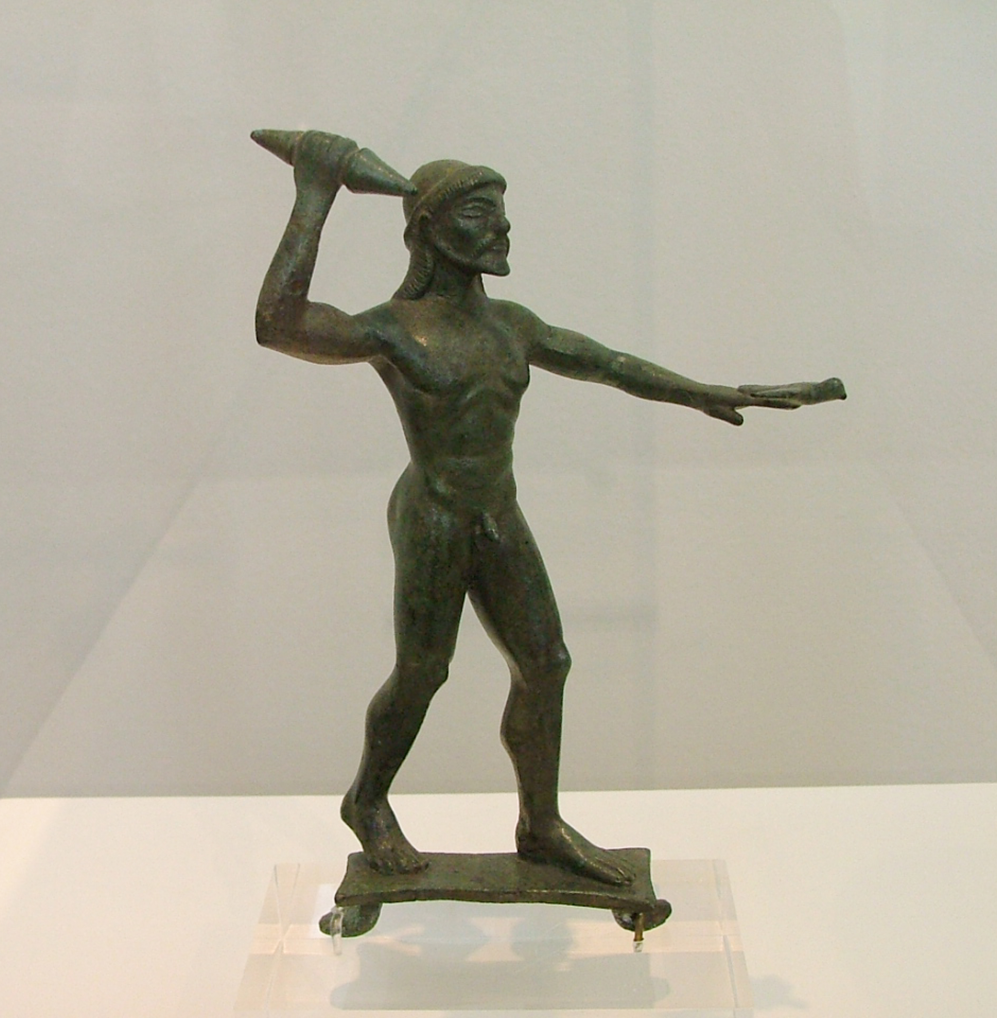 Bronze statuette of Zeus found in Ambrakia, Aitoloakarniana. The god holds the thunder with the right raised hand. And eagle on his extended left hand. About 490-480 B.C.